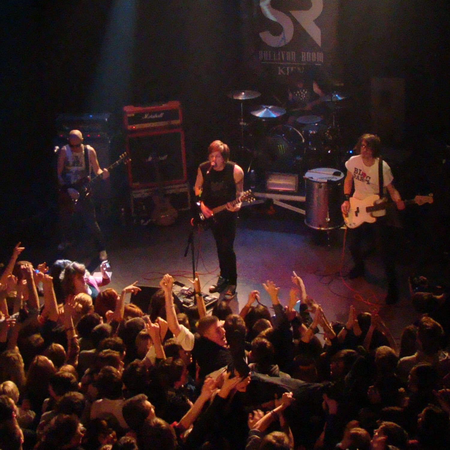 The band "O.Torvald" during the performance in Sullivan Room, Kyiv.